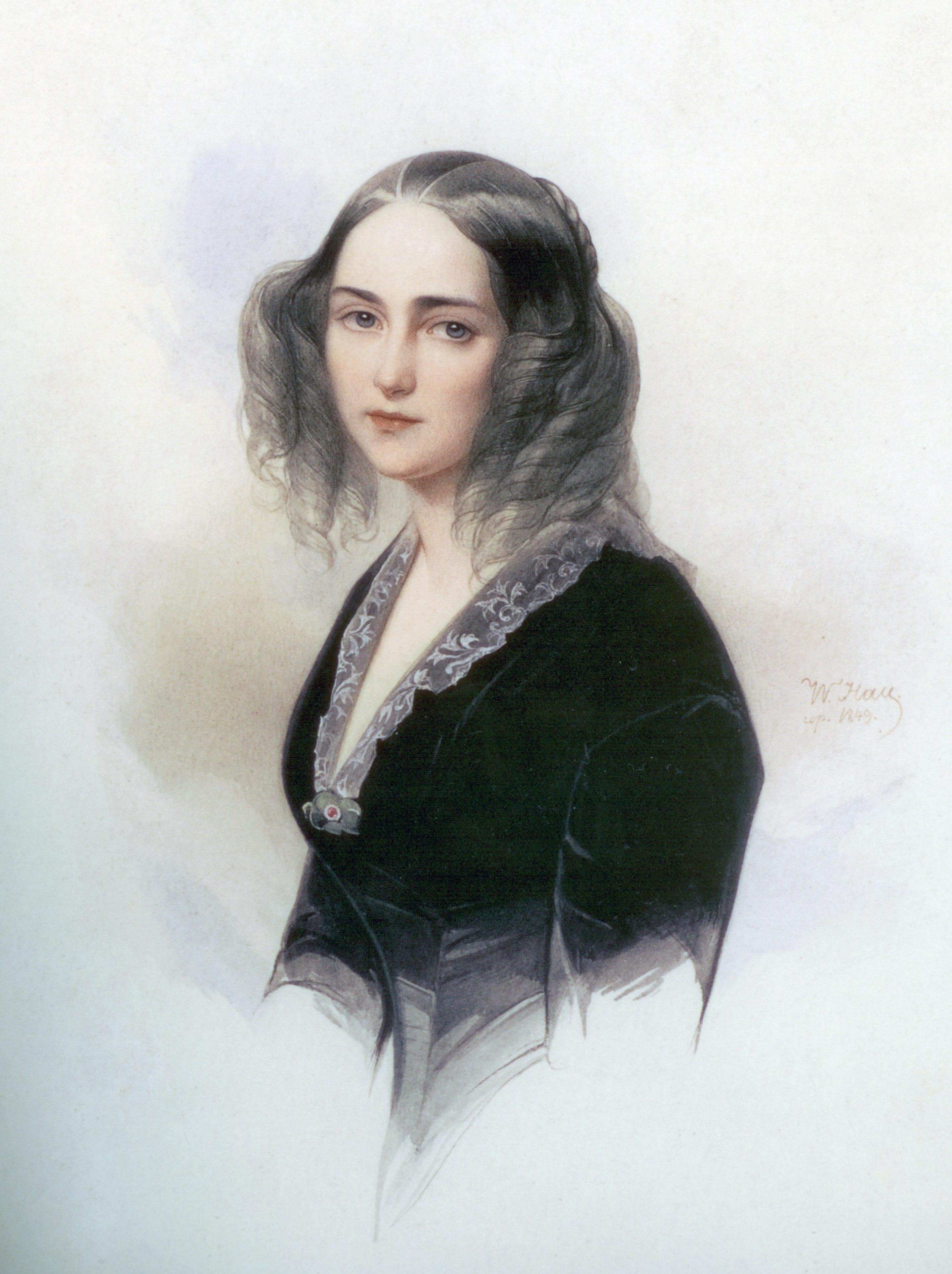 Portrai musina-pushkina, Vladimir Ivanovich Hau»